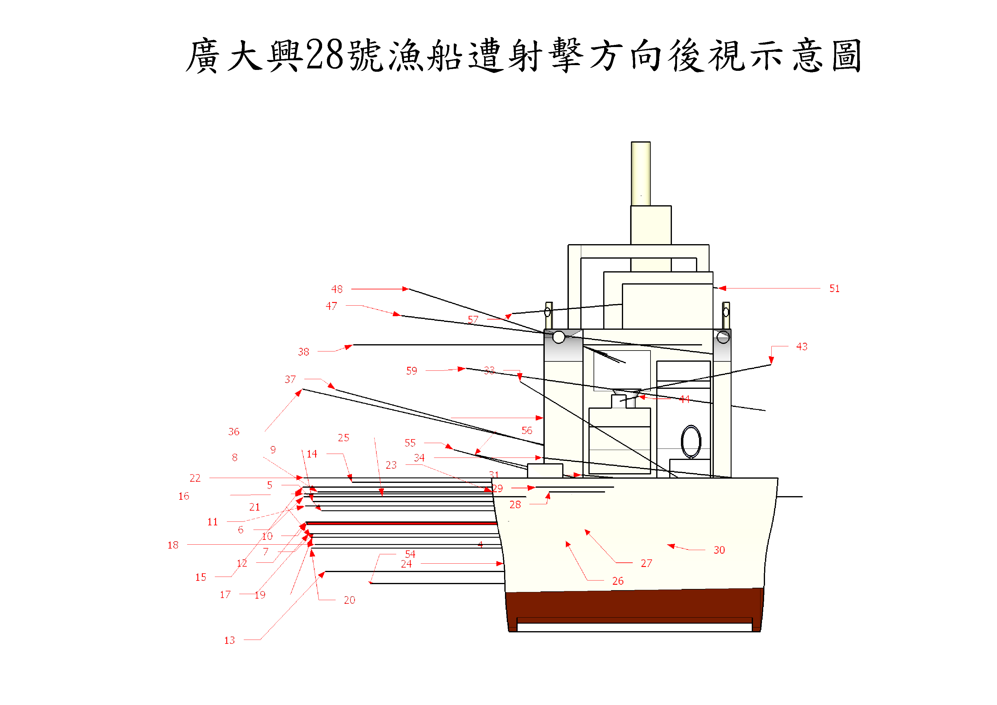 Bullet Trajectory of Guangdaxing No.28 (Rear view)